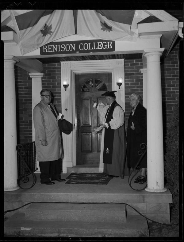 Image of G.N. Luxton gesturing at a door under a Renison College sign as Carl Dunker and Mrs. R.J. Renison look on.